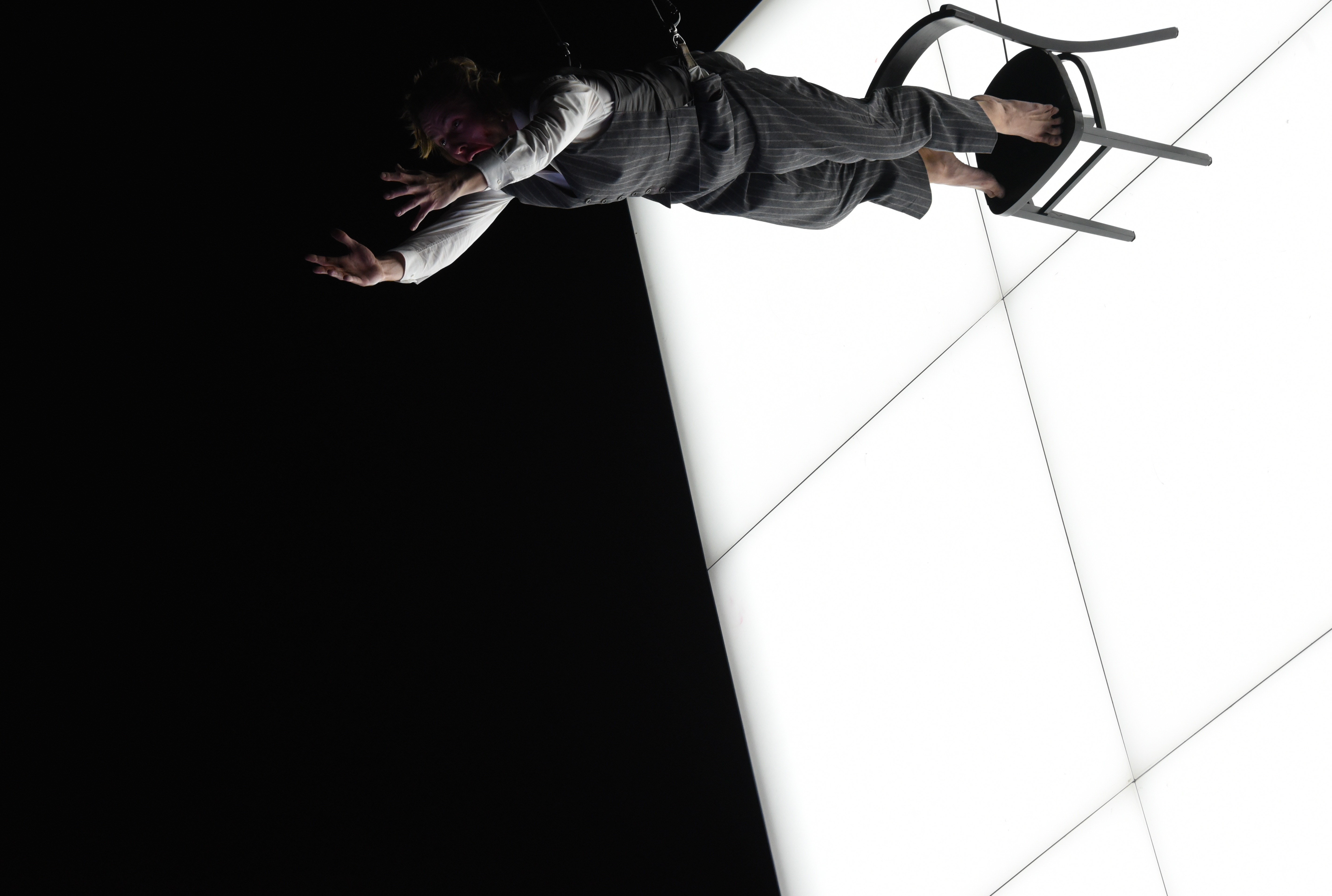 Der Mieter, opera by Roland Topor and Arnulf Herrmann, libretto by Händl Klaus. World premiere at Oper Frankfurt, 12 november 2017, with Björn Bürger (as Georg Schwarz), director: Johannes Erath, sets: Kaspar Glarner, costumes: Katharina Tasch, lighting: Joachim Klein, conductor: Kazushi Ōno